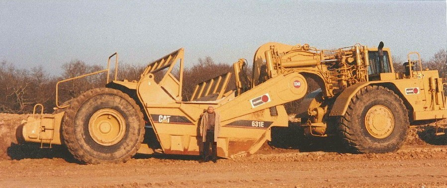 Caterpillar 631E Scraper used for the construction of the A89 motorway; near Montpon-Ménestérol, Dordogne, France.